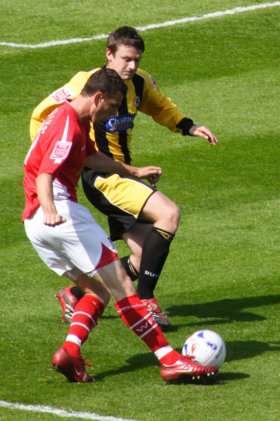 Chris Llewellyn in action for Wrexham against Boston United